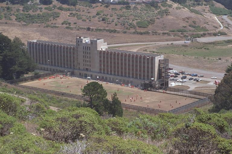 This is a photograph of the former San Francisco County Jail #3 in San Bruno, California. It was taken from atop Sweeney Ridge in the Golden Gate National Recreational Area, located immediately west of the jail complex. This jail was closed in 2006. The jail's replacement, County Jail #5, is located just east of this building.